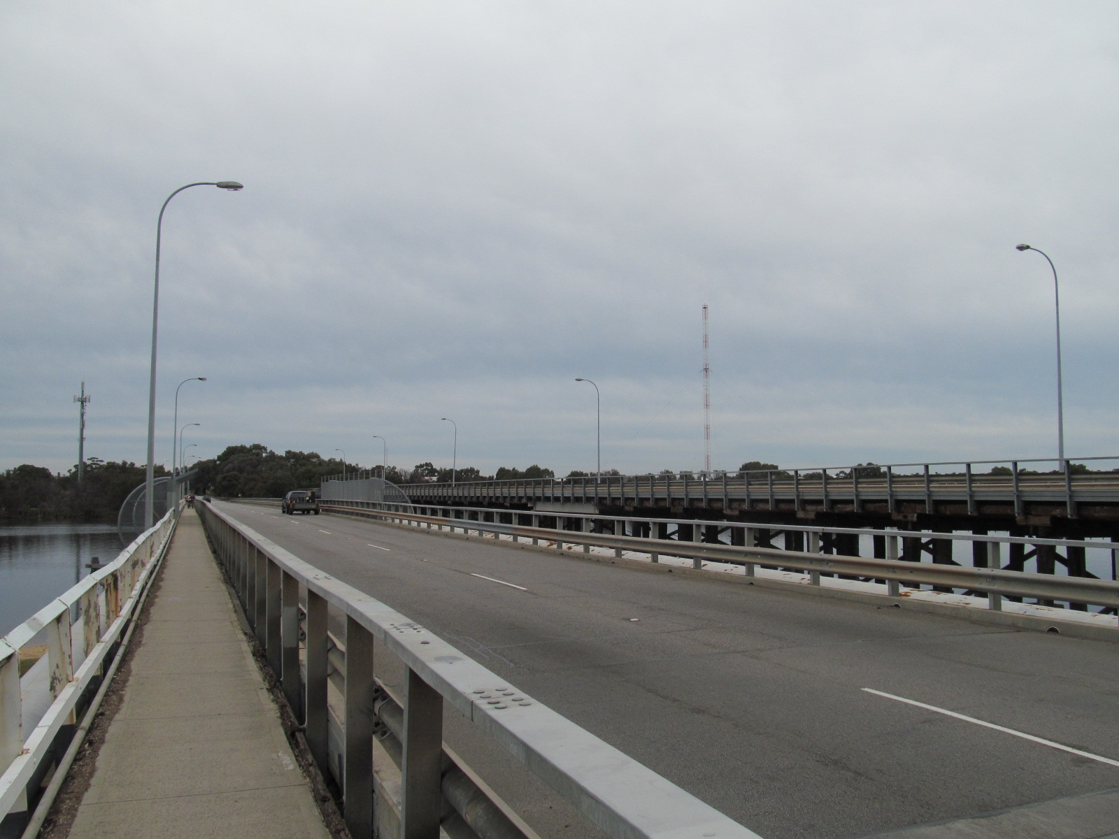 Garratt Road Bridge, Perth, Western Australia: Second bridge, from the north-west.